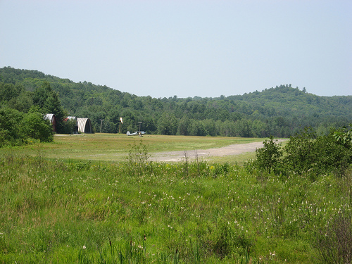 Photo of the small airfield located in Bancroft Ontario